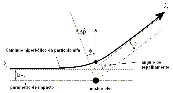 Dispersão de rutherford